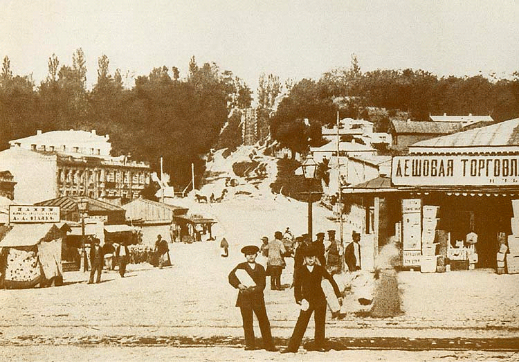 Bessarabska Square, Kiev, Ukraine.